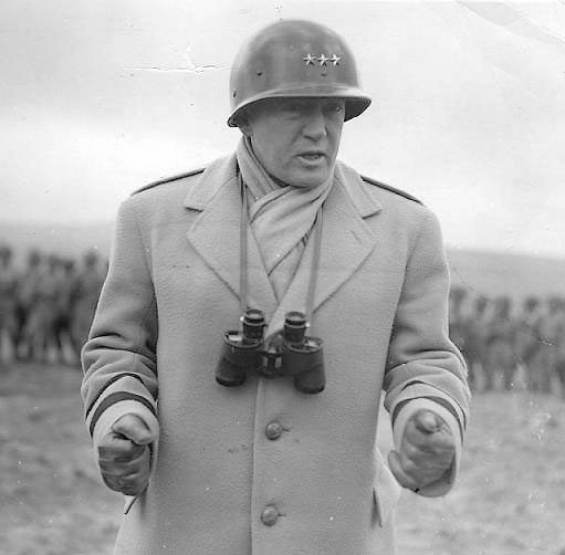 George Patton making a speech for US troops. Armagh, Northern Ireland, United Kingdom, spring 1944